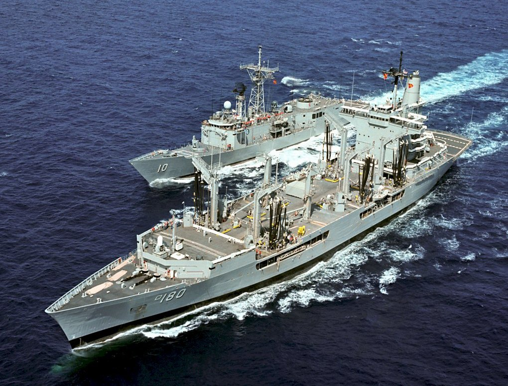 The U.S. Navy fleet oiler USS Willamette (AO-180) and the Oliver Hazard Perry-class guided missile frigate USS Duncan (FFG-10) prepare for an underway replenishment (UNREP) at sea in January 1987.